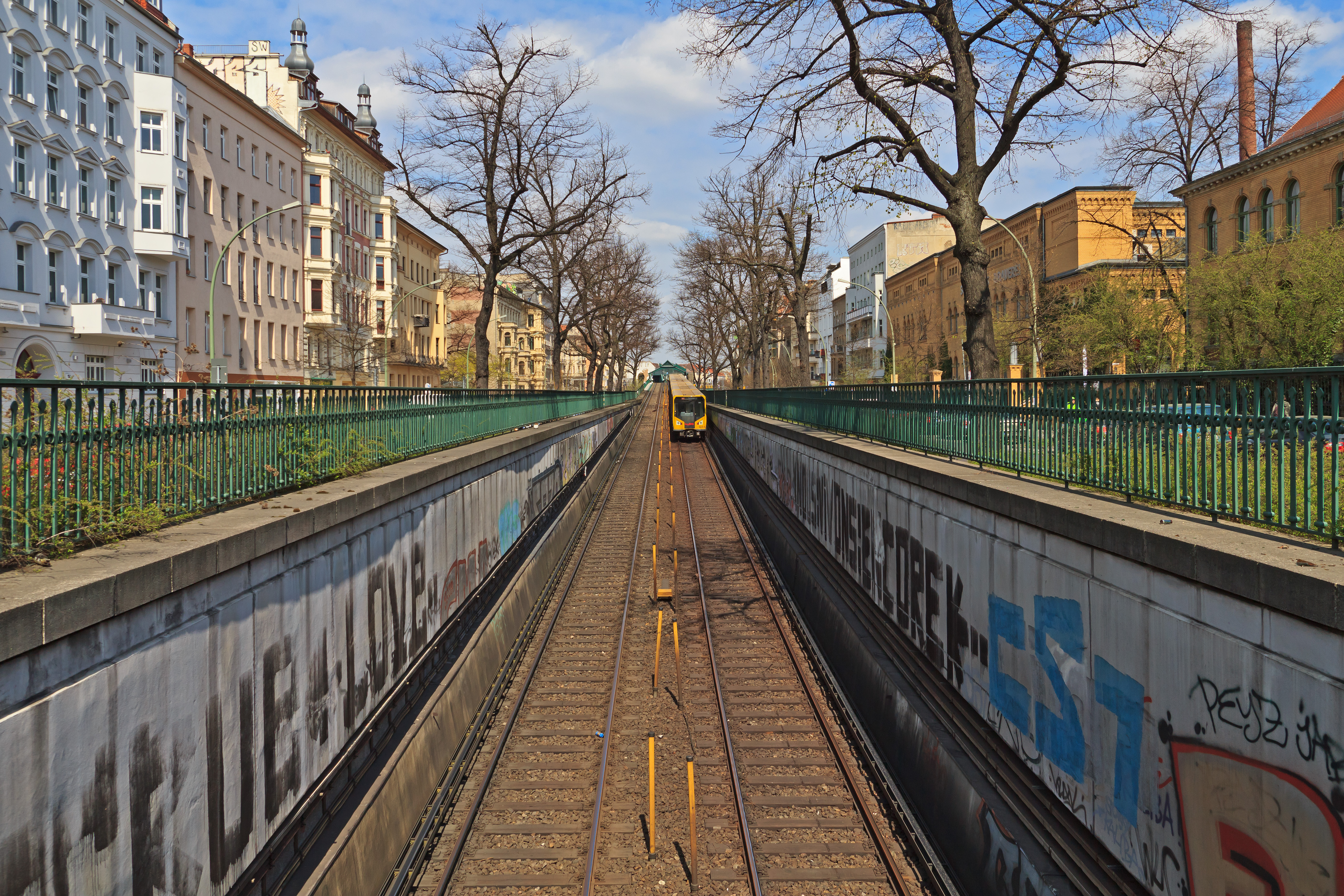 Berlin-Prenzlauer Berg, U2 subway line ramp on Schönhauser Allee.